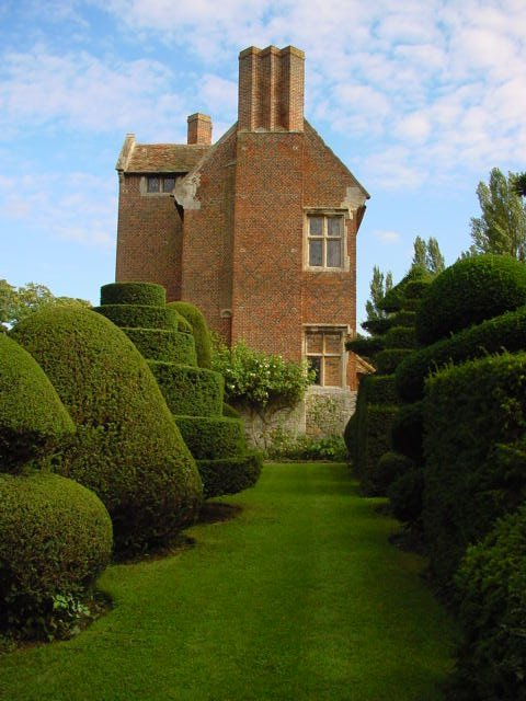 Northwest face of Beckley Park (Beckley, Oxfordshire, UK) featuring topiary